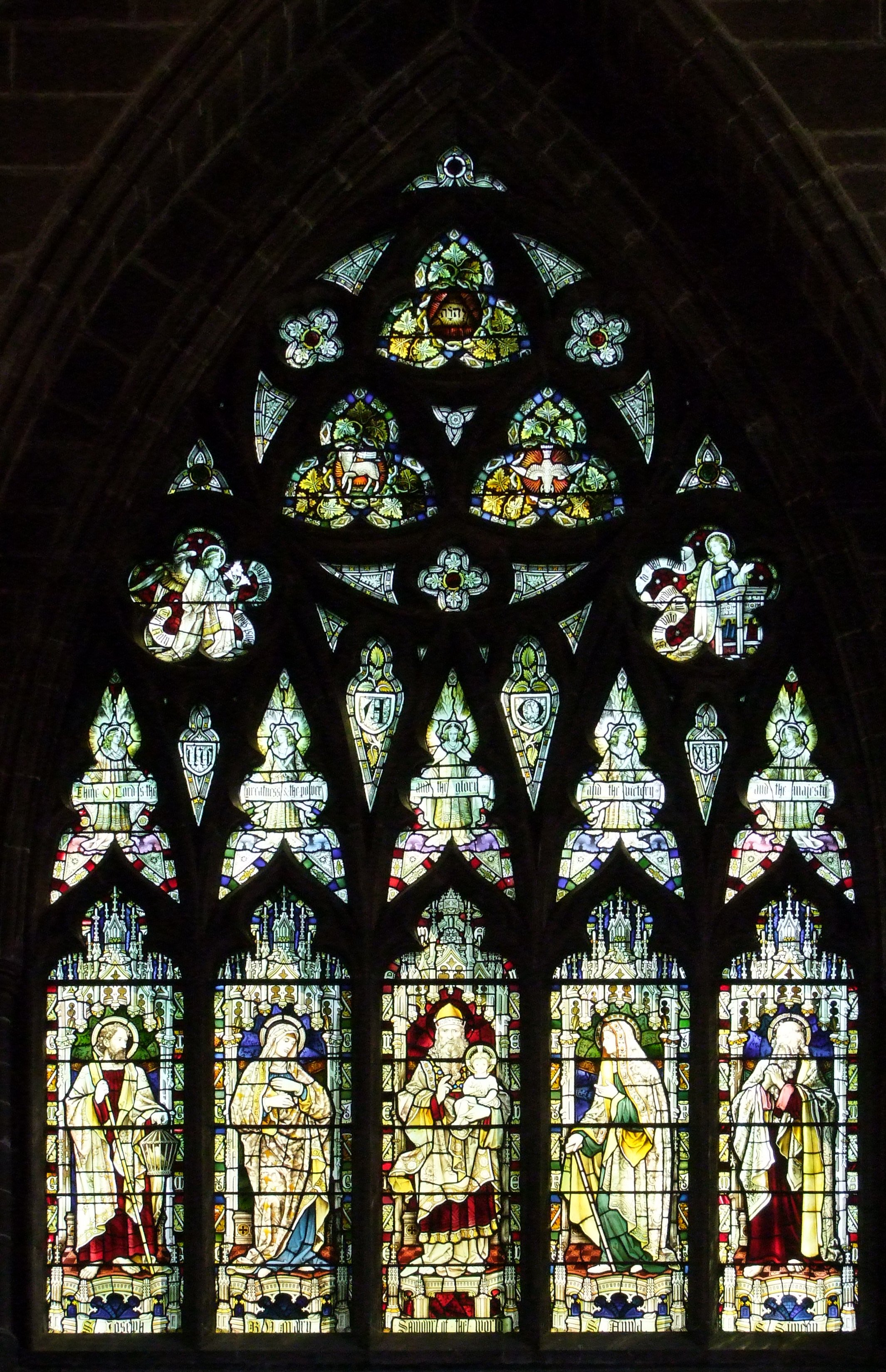 This is a stained glass window is in Chester Cathedral The subject is Jesus, Saviour of the World. It is a Trinity window, with the name of God, the Lamb of God and the Holy Spirit represented in the upper tracery. The main central light shows God as High Priest holding the infant Jesus. From left to right the other figures are St Joseph, the Blessed Virgin, Ss Anna and Simeon.